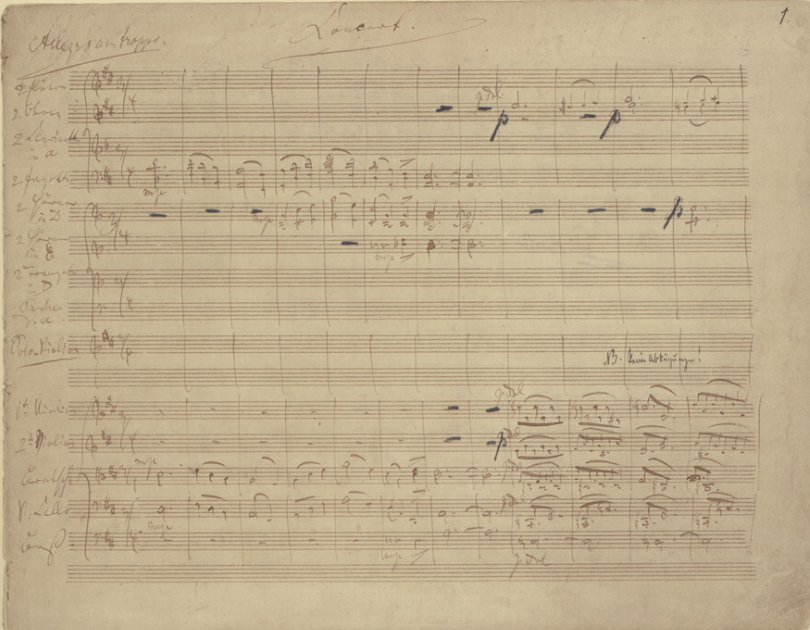 Beginning of the Johannes Brahms violin concerto op.77 in D major.